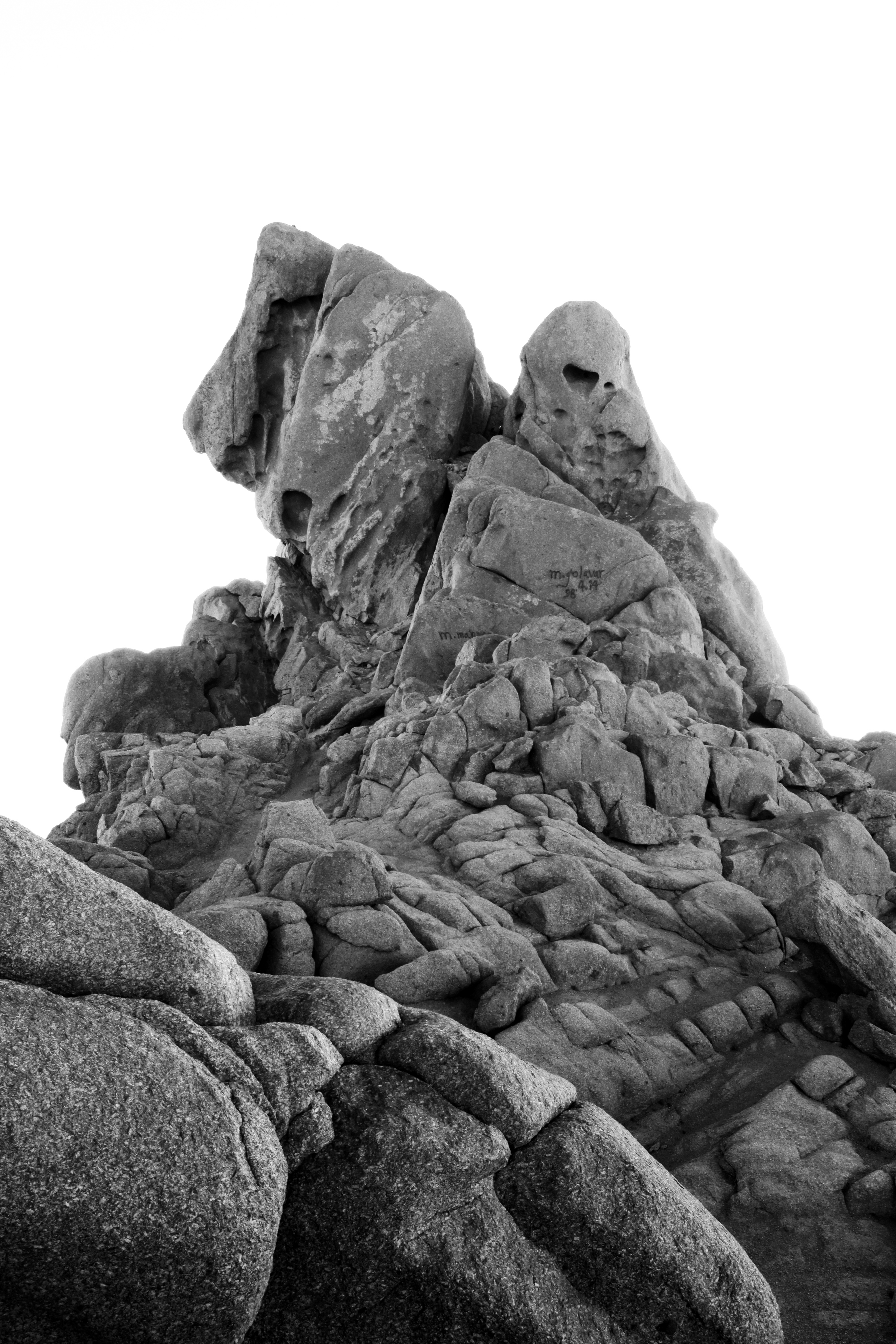 Alvand Summit, West view in the sunrise